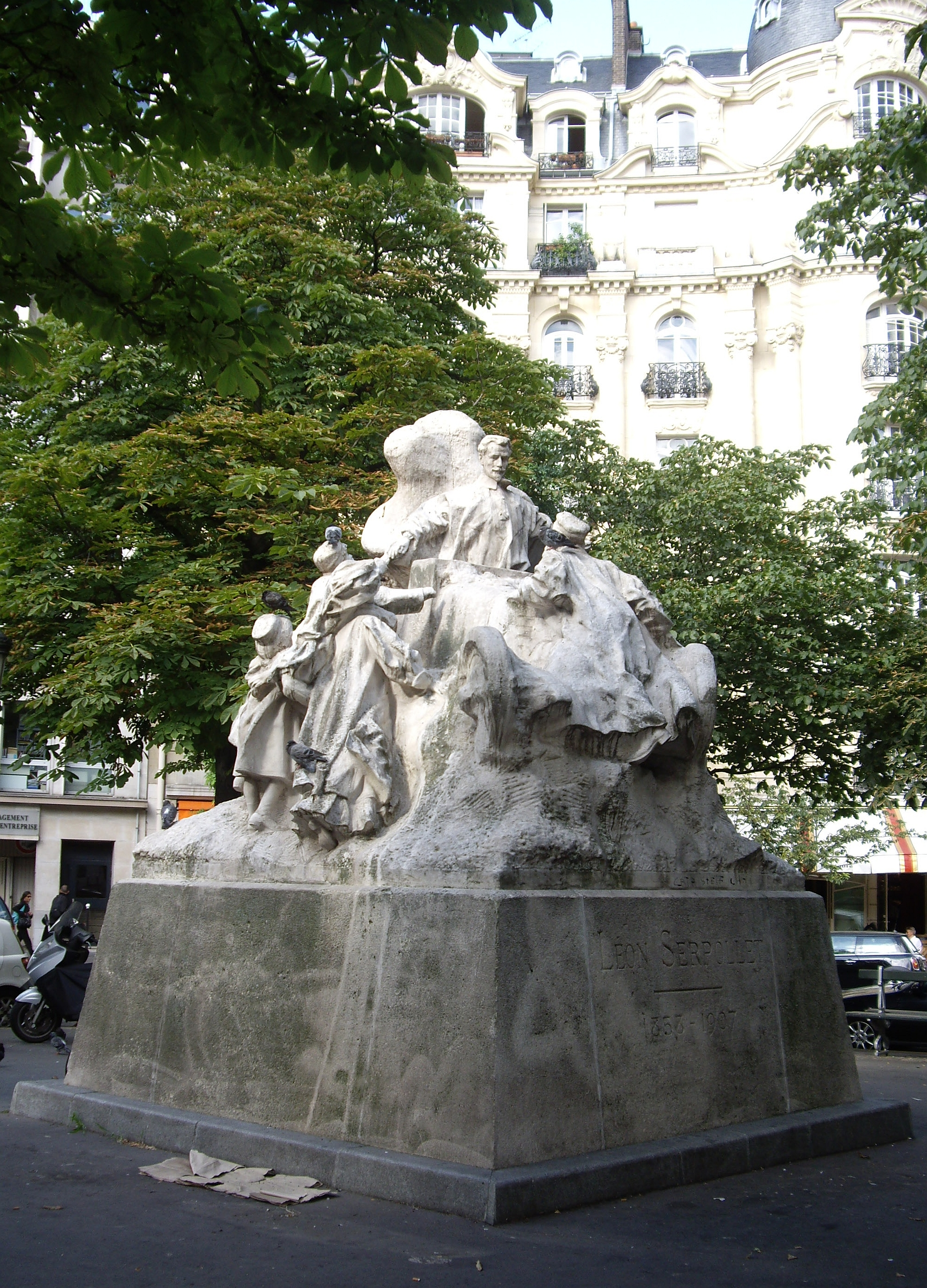 Statue of French industrialist Léon Serpollet (1858-1907), Place Saint-Ferdinand, Paris 17e, by Jean Boucher (1870-1939).